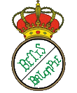 Real Betis Balompie second crest